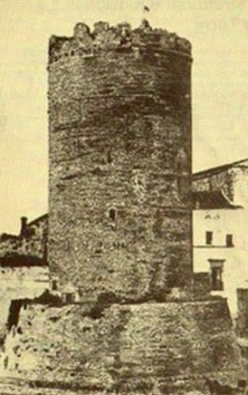 Torre del Pilota in Ruvo di Puglia